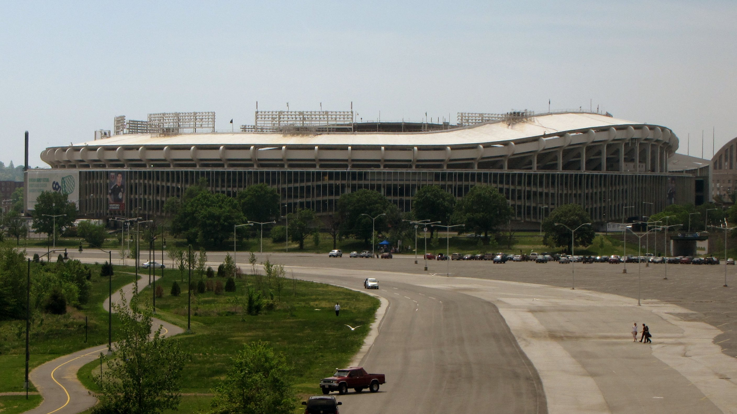 RFK Stadium in Washington DC as viewed from an Orange Line train on the Washington Metro.